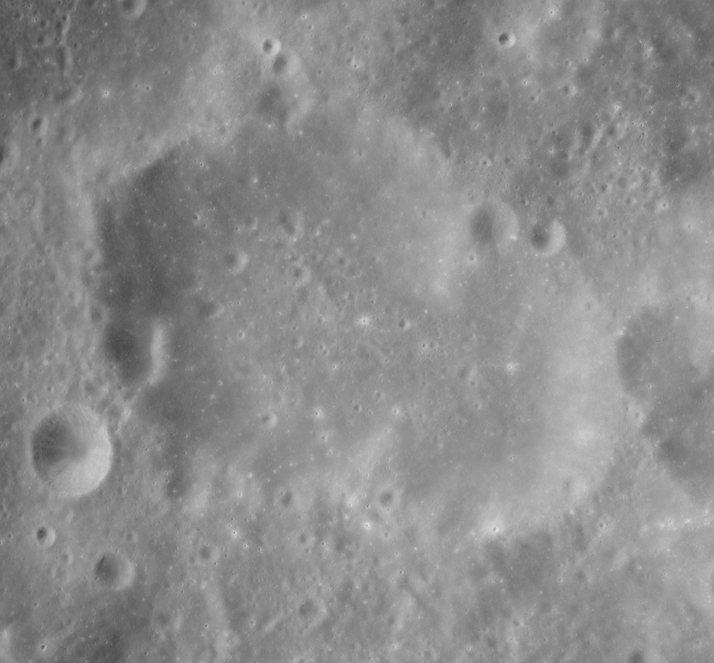 Slightly oblique view Houtermans, on the far side of the moon.